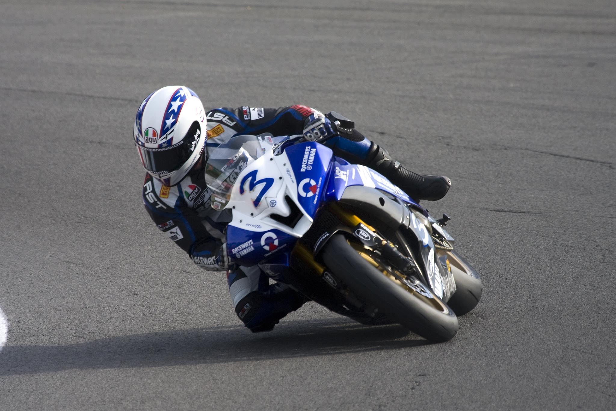 BSB Brands Hatch October 2008 Fuchs-Silkolene Supersport Practice